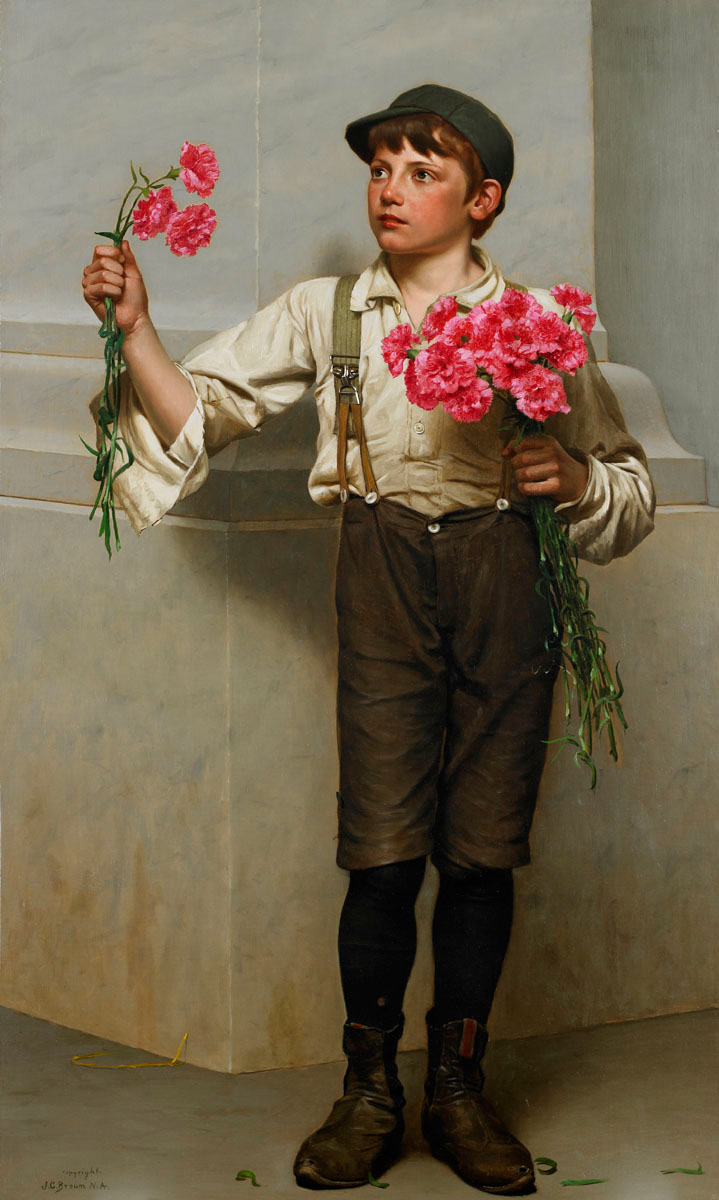 A street urchin selling flowers.